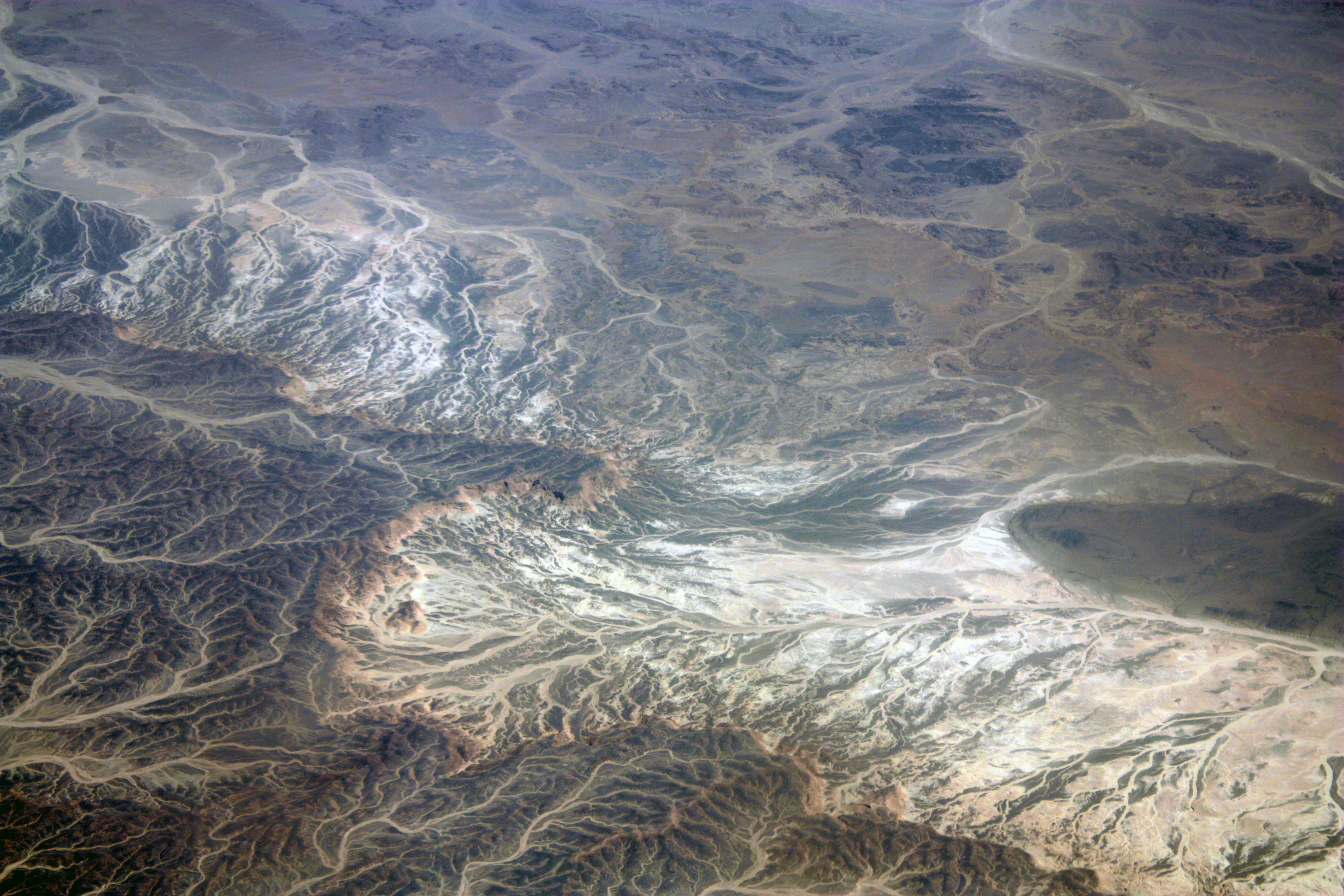 Wadi in East Egypt